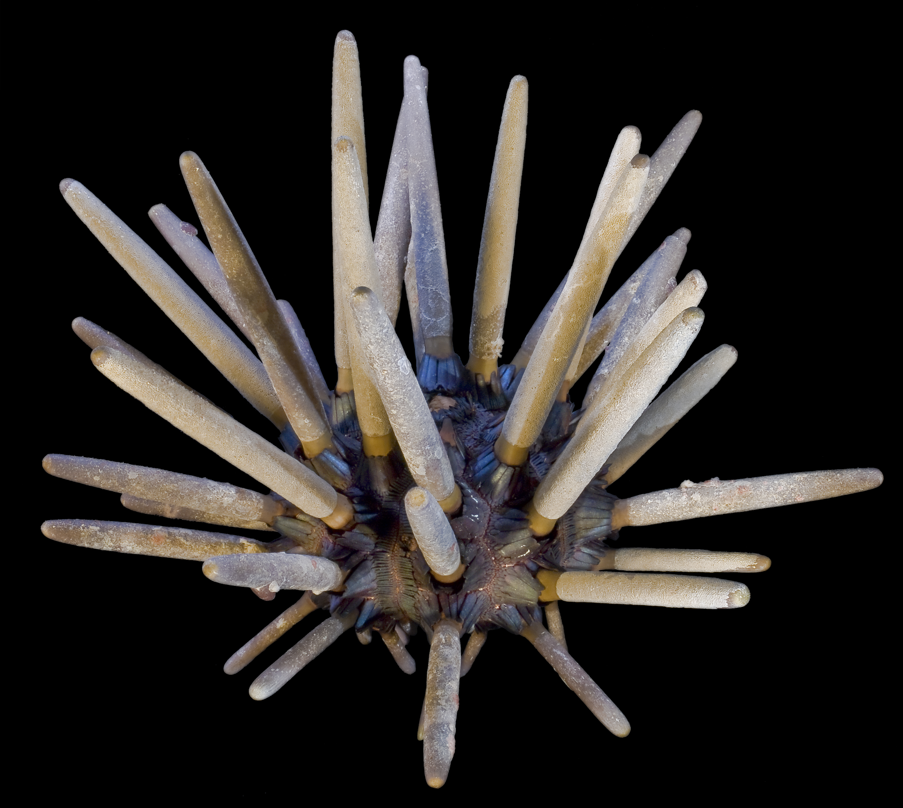 pencil urchins - Cidaridae - 22cm - Philippines